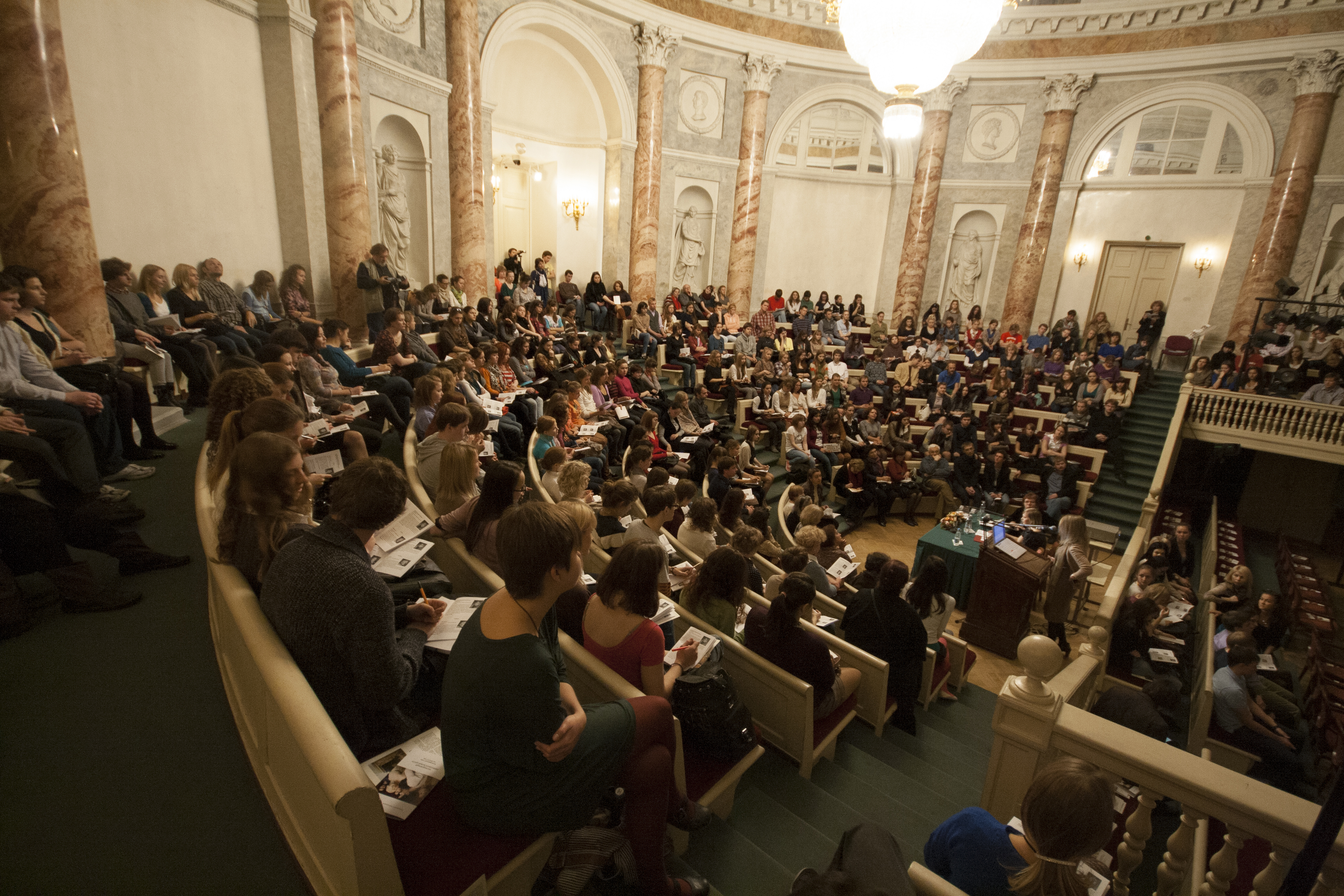 День Студента в Эрмитаже. 07.10.2012